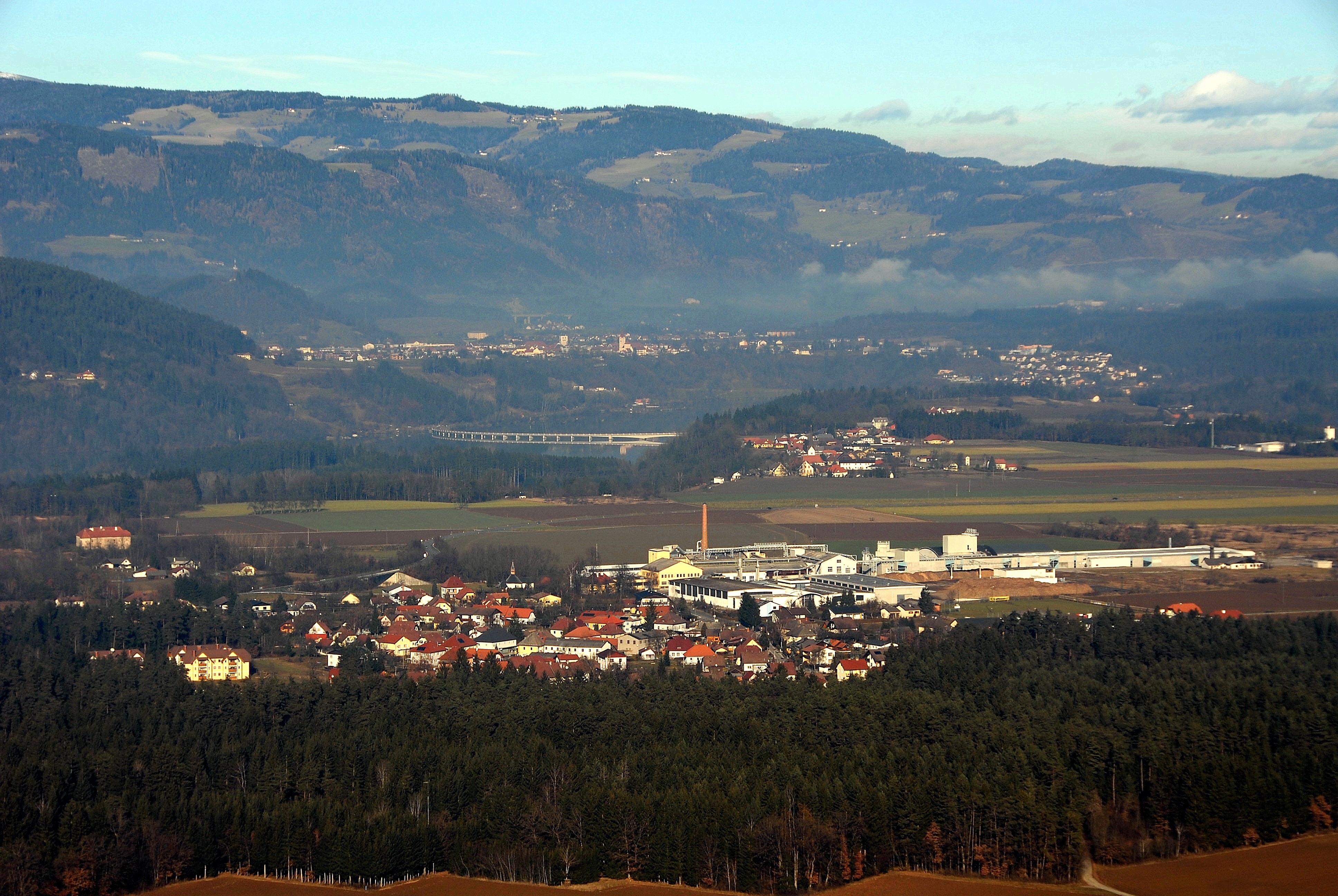 Wasserhofen (Žirovnica), a locality of the market town Eberndorf, bridge across the Drau storage lake, Völkermarkt and the Saualpe in the background, view from the Mount Georgi, district Völkermarkt, Carinthia, Austria, EU